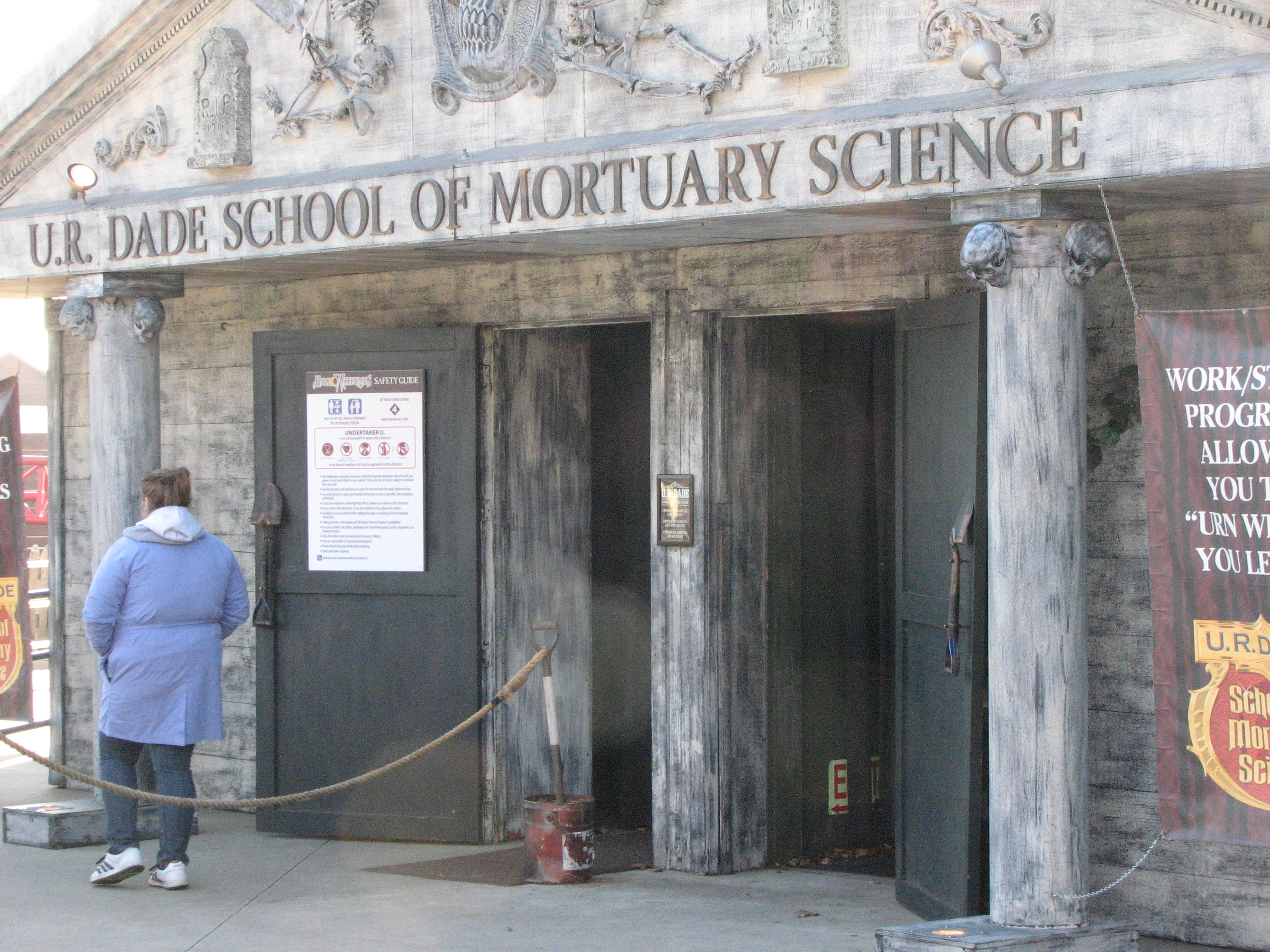 U.R. Dade School of Mortuary Science